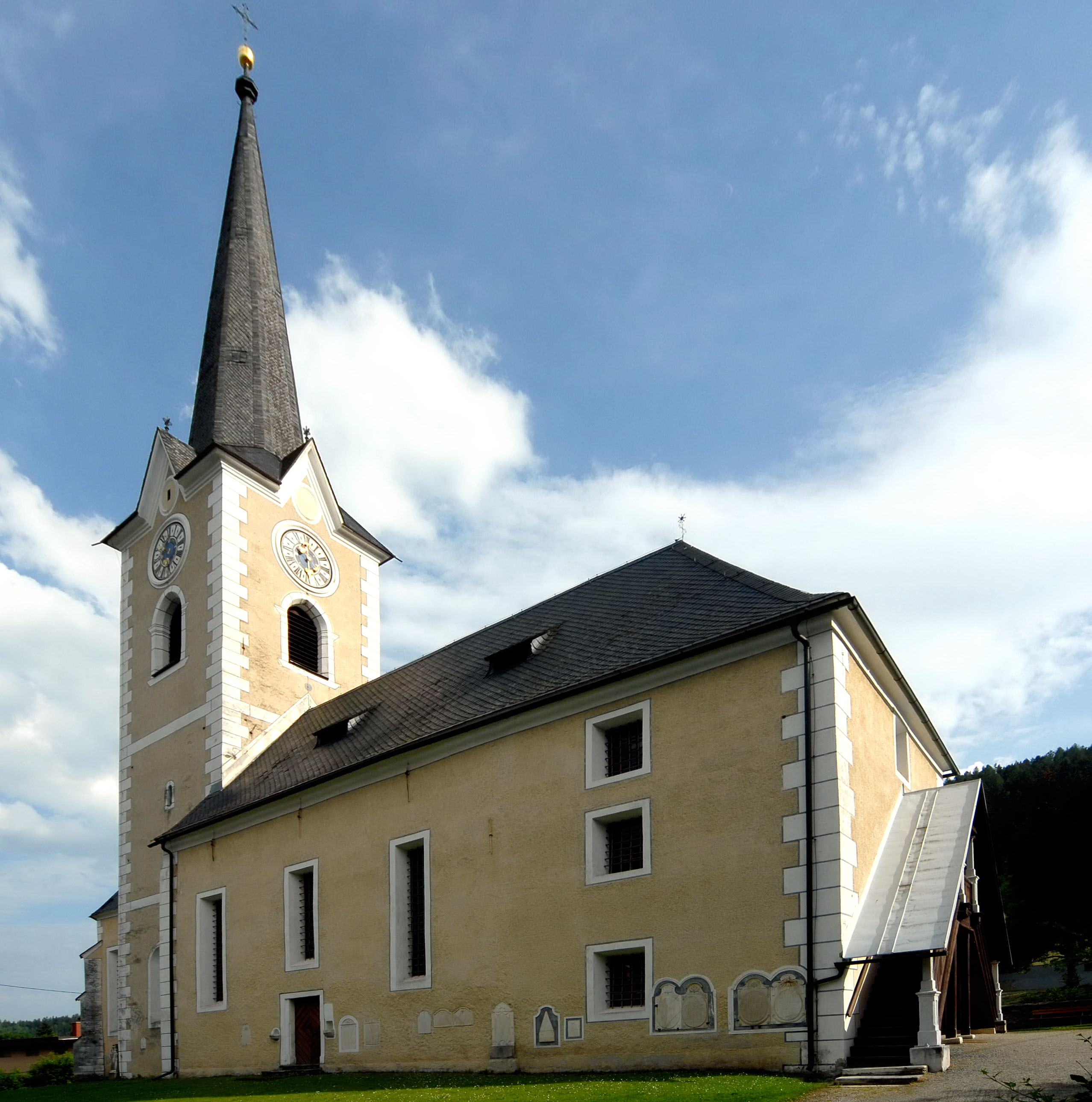 Parish church Saint Martin in Himmelberg, municipality Himmelberg, district Feldkirchen, Carinthia, Austria, EU